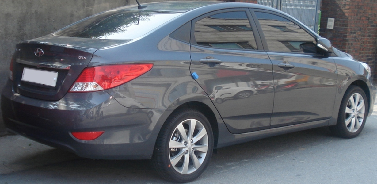 Hyundai Accent